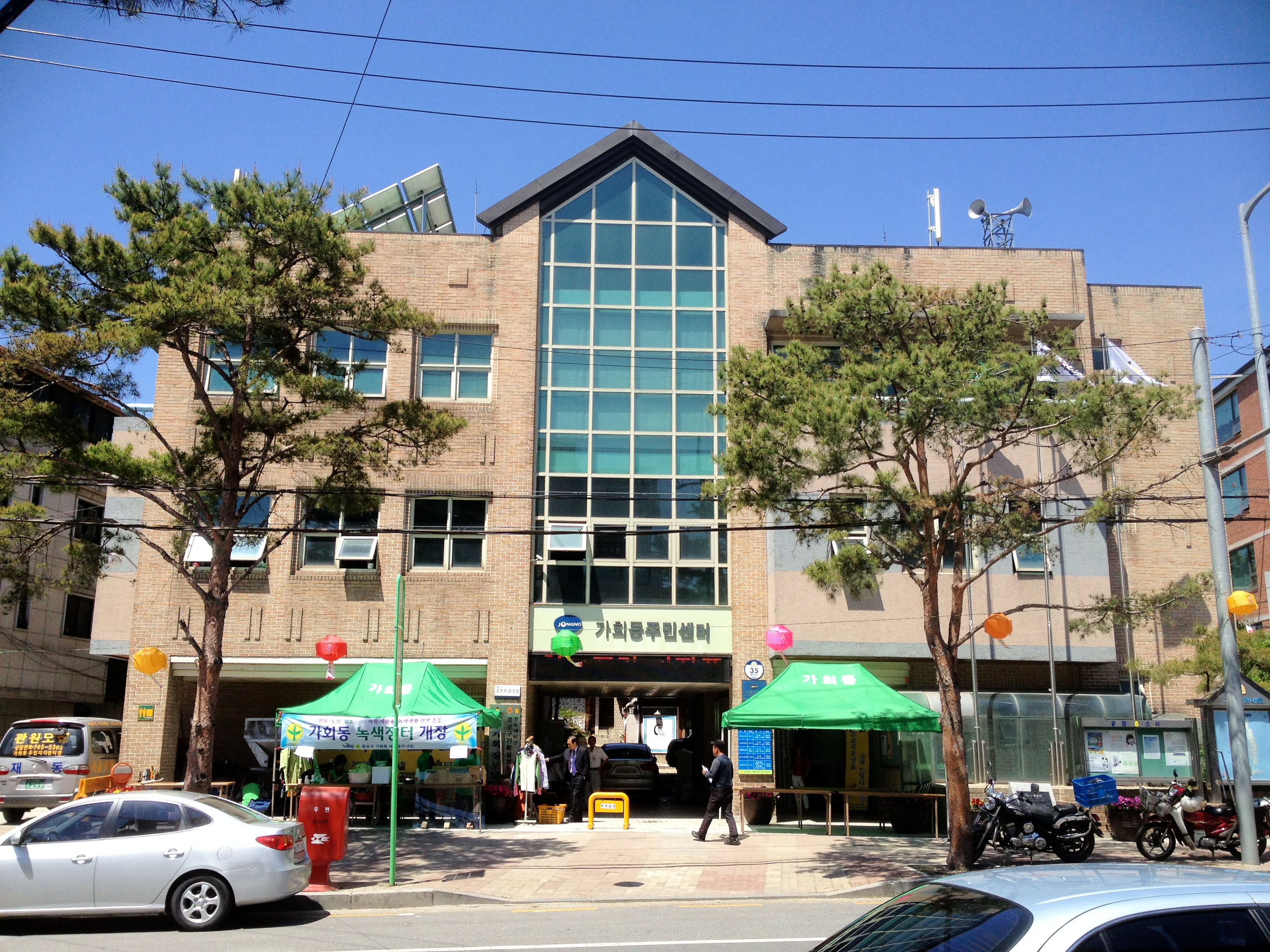 Gahoe-dong Comunity Service Center(Jongno-gu)